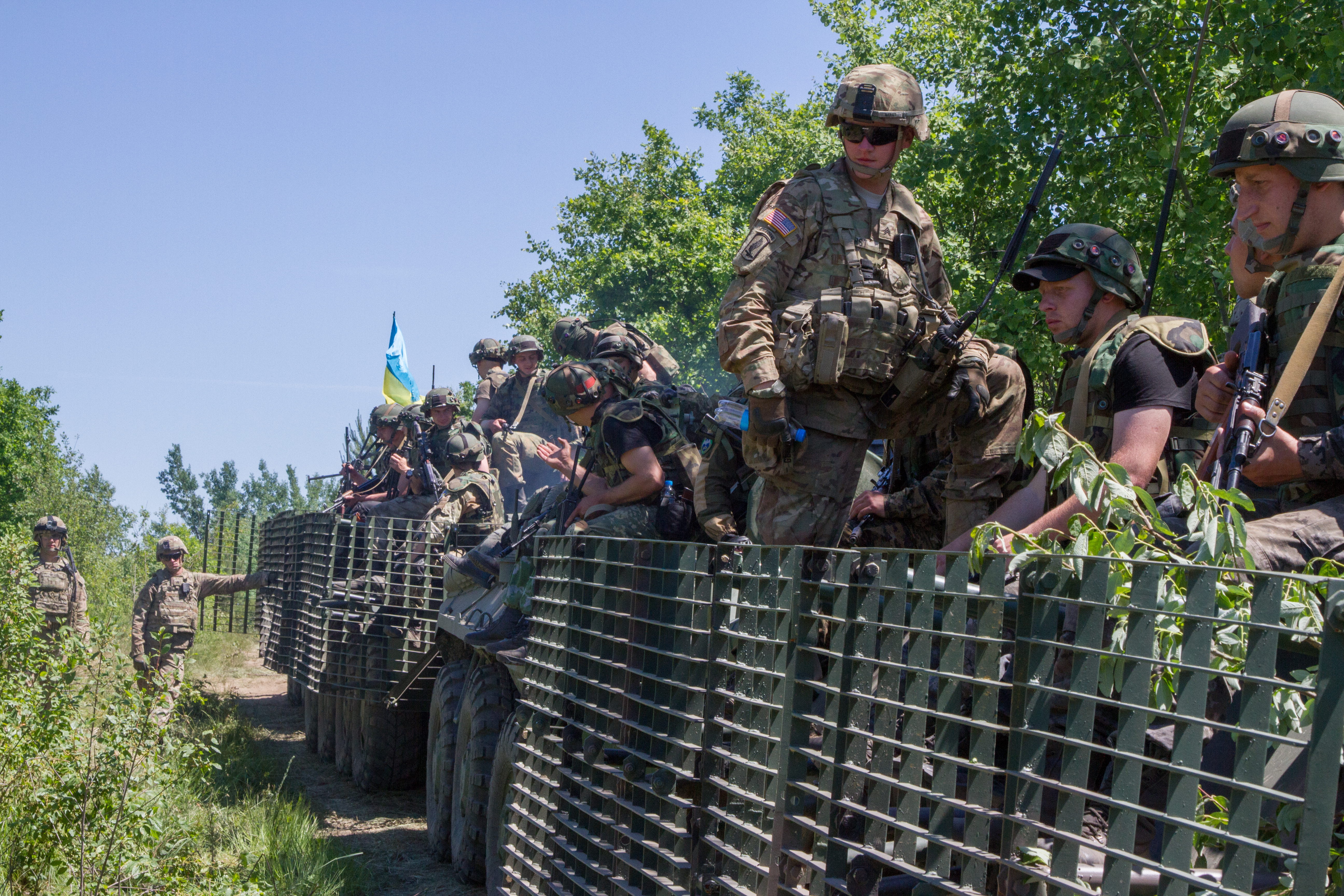 Sgt. Eric Gerst (3rd from right), a paratrooper with the U.S. Army's 173rd Airborne Brigade, rides along with Soldiers from the Ukrainian national guard's 3029th Regiment during a platoon live-fire exercise June 6, 2015, as part of Fearless Guardian in Yavoriv, Ukraine. Paratroopers from the U.S. Army's 173rd Airborne Brigade are in Ukraine for the first of several planned rotations to train Ukraine's newly-formed national guard as part of Fearless Guardian, which is scheduled to last six months. (U.S. Army photo by Sgt. Alexander Skripnichuk, 13th Public Affairs Detachment).